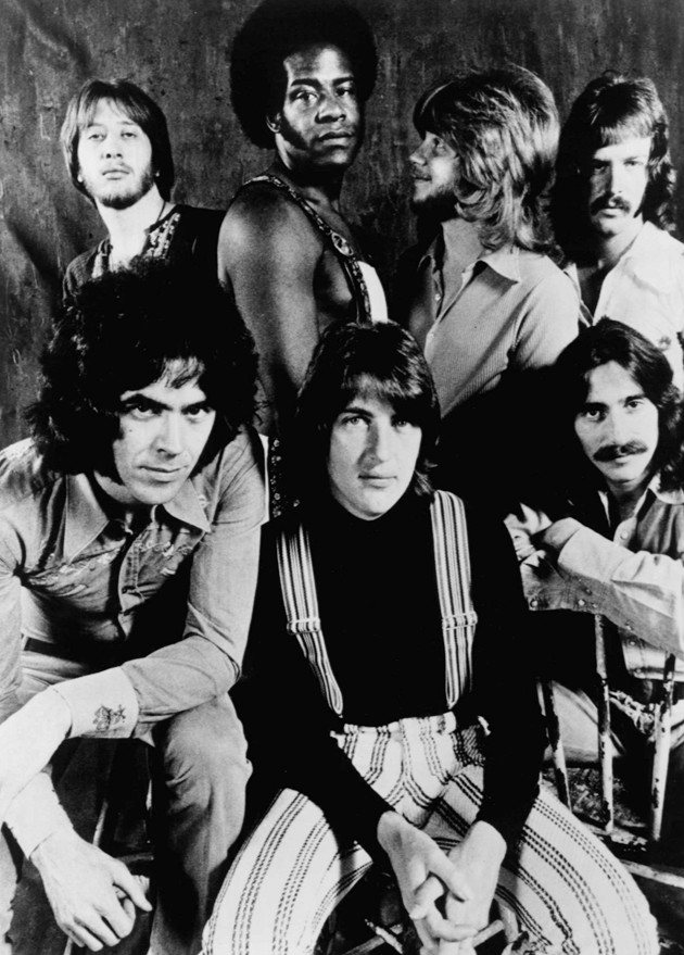 Photo of the rock group Three Dog Night from a 1972 US television special.